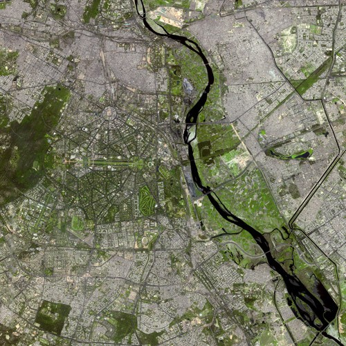 New Delhi by SPOT Satellite